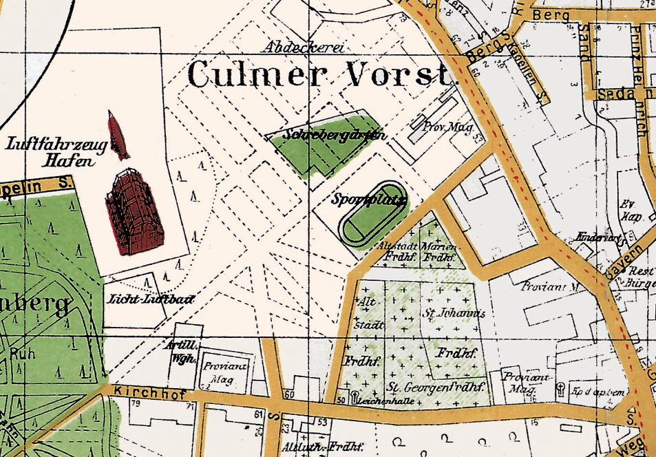 Old City Stadium in Torun on the city map from 1916.